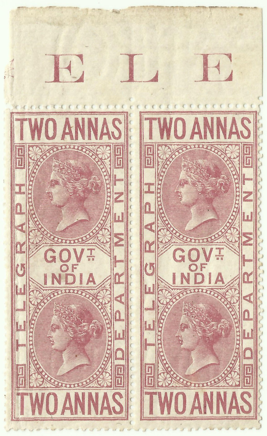 1869 2a India telegraph stamps.